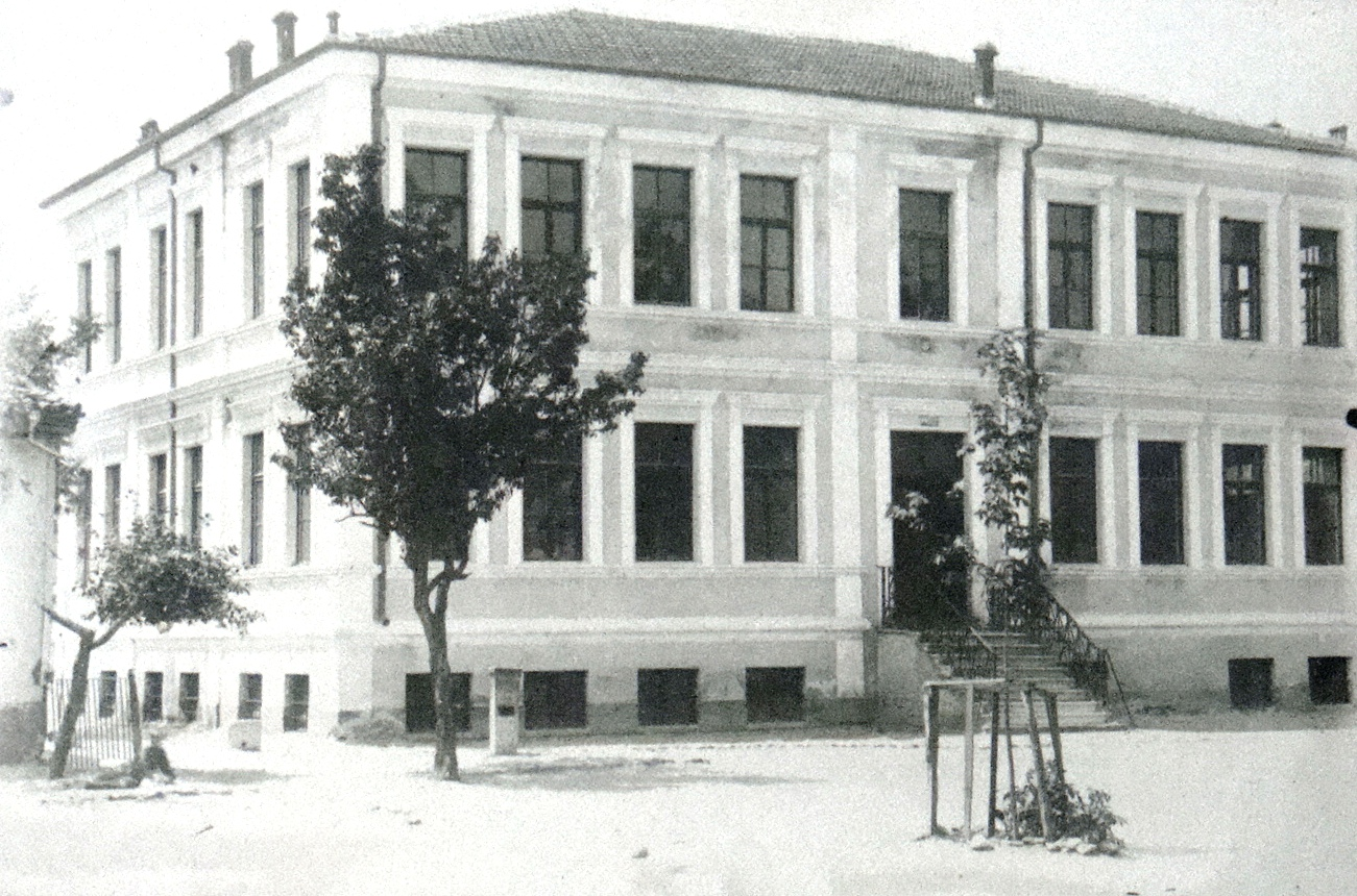 The building of the elementary school "Kliment Ohridski" in Bitola. 1918-1941 This media file is produced by Wikipedian in Residence in Category:Wikipedian in Residence at DARM in 2016.